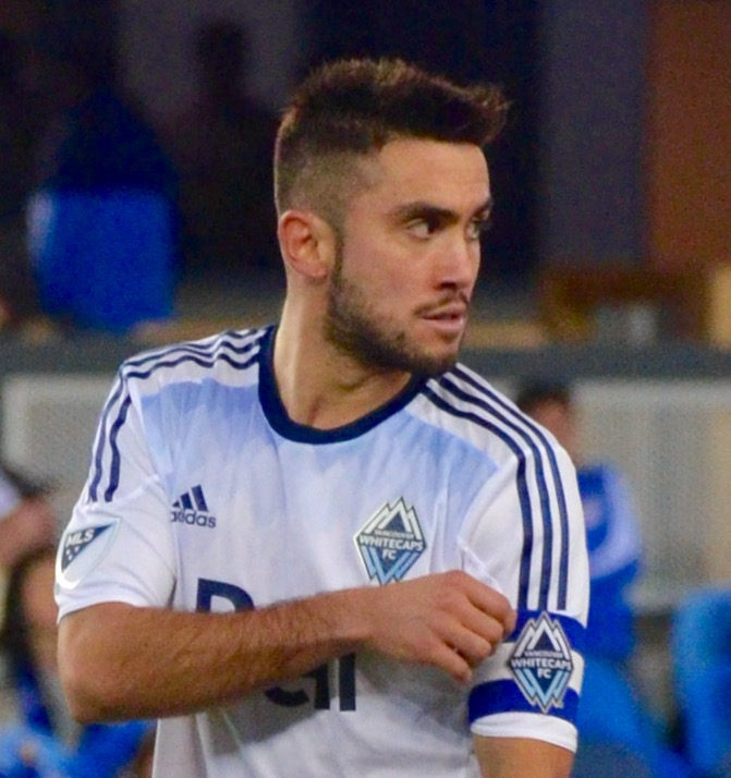 Pedro Morales, playing for the Vancouver Whitecaps, adjusts his captain's armband at Avaya Stadium on 11 April 15 vs the San Jose Earthquakes